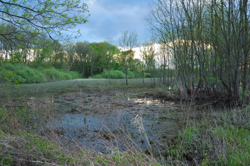 Flood-meadow near Hohenau an der March, Lower Austria